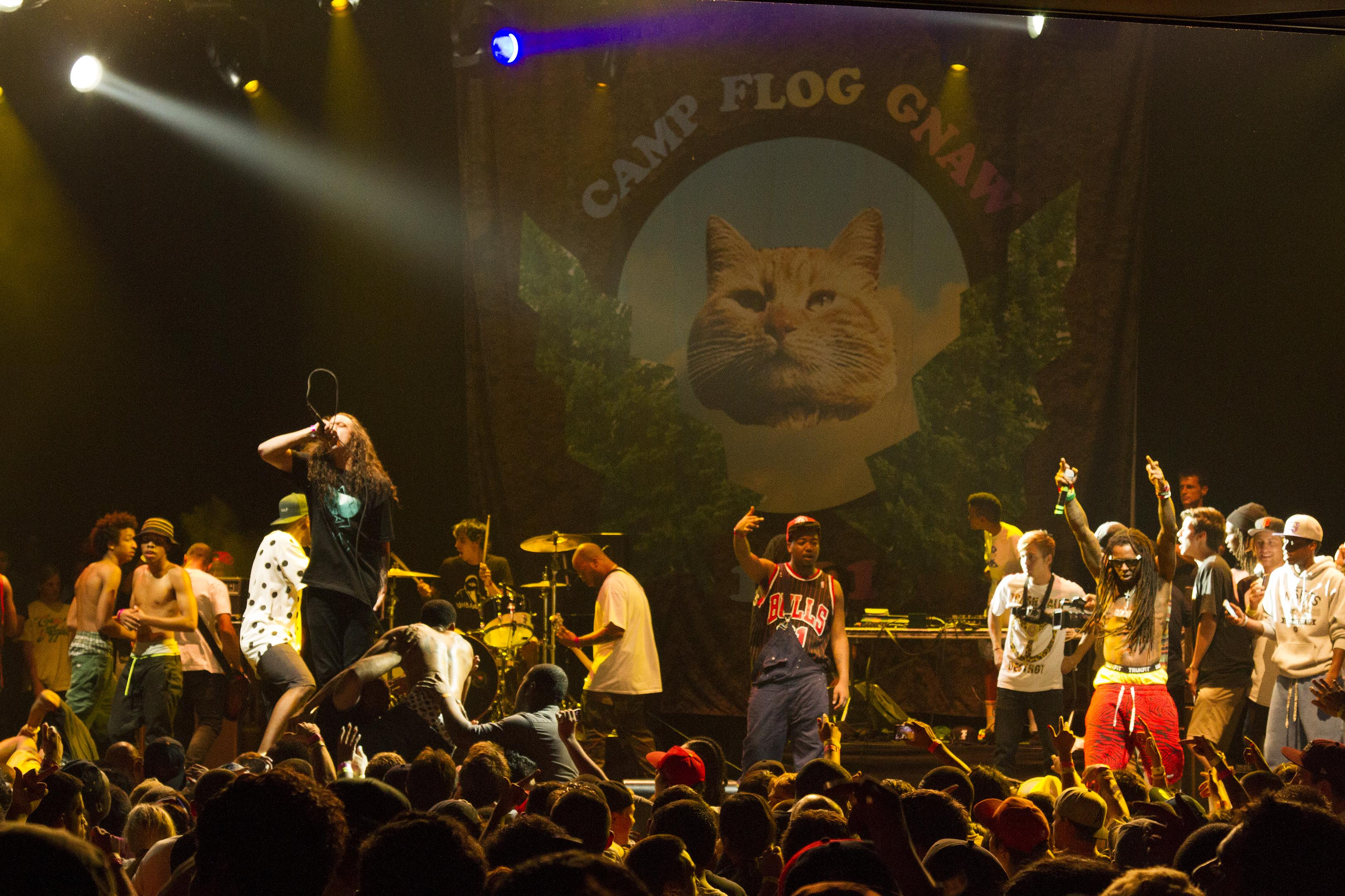 Odd Future, Lil Wayne, and Trash Talk perform in Los Angeles, CA, 2012